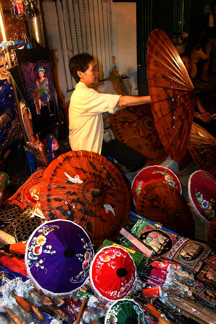 Woman selling umbrellas at the Sunday market, Chiangmai